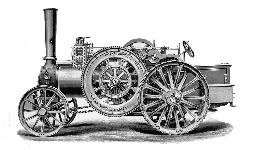 Line drawing of a Burrell Universal type Ploughing Engine from around 1890. Used in Burrell advertising material.